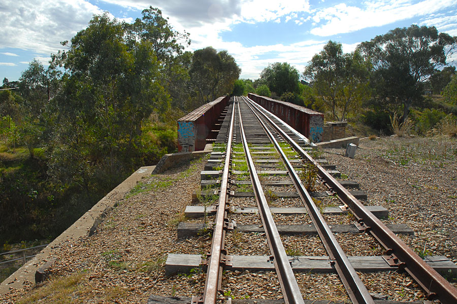 gawler_river_railway_bridge_roseworthy_line_3_10may2012_pb110